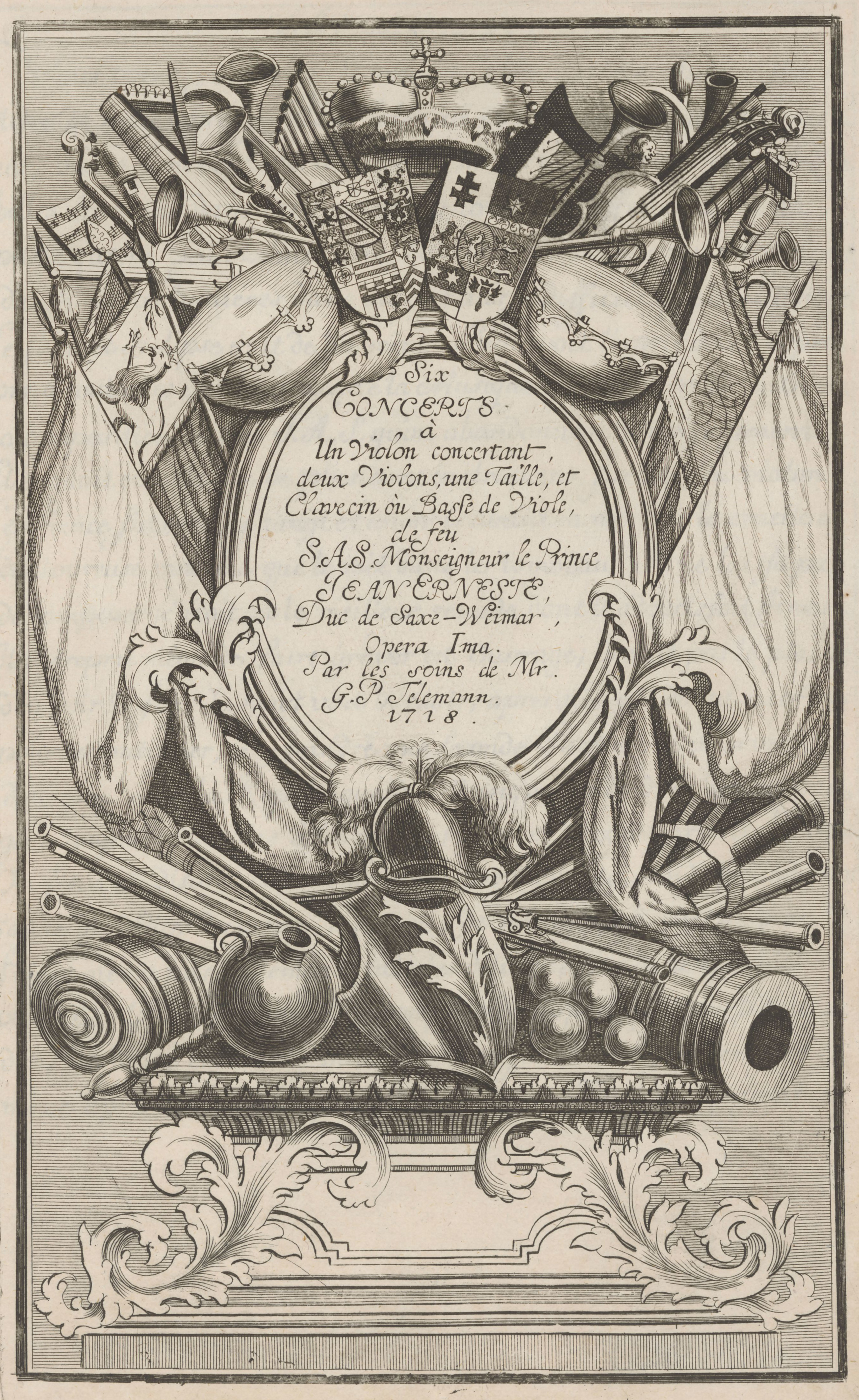 Title page from Six concerts by John Ernest IV. of Saxe-Weimar edited by Georg Philipp Telemann